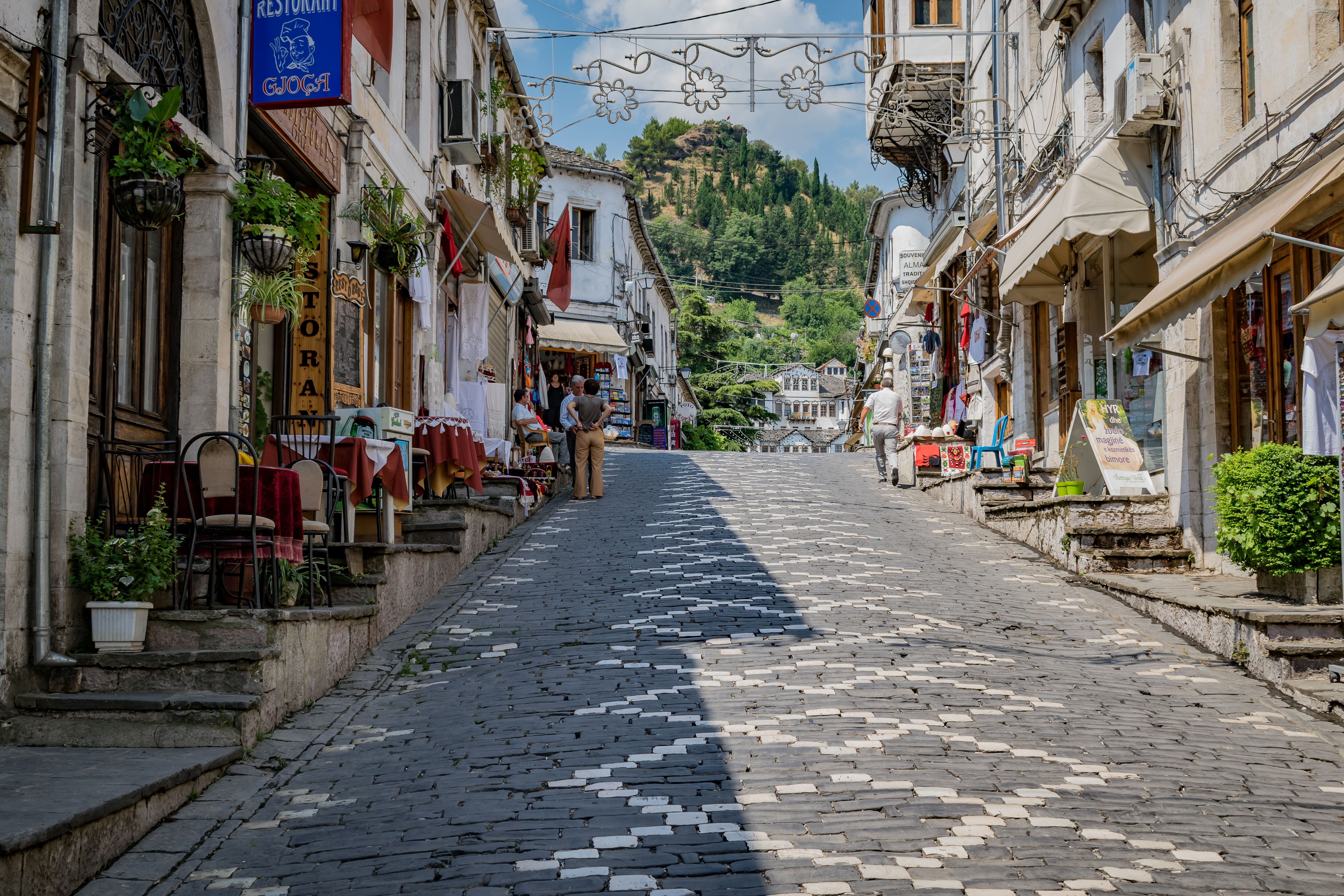 Gjirokaster